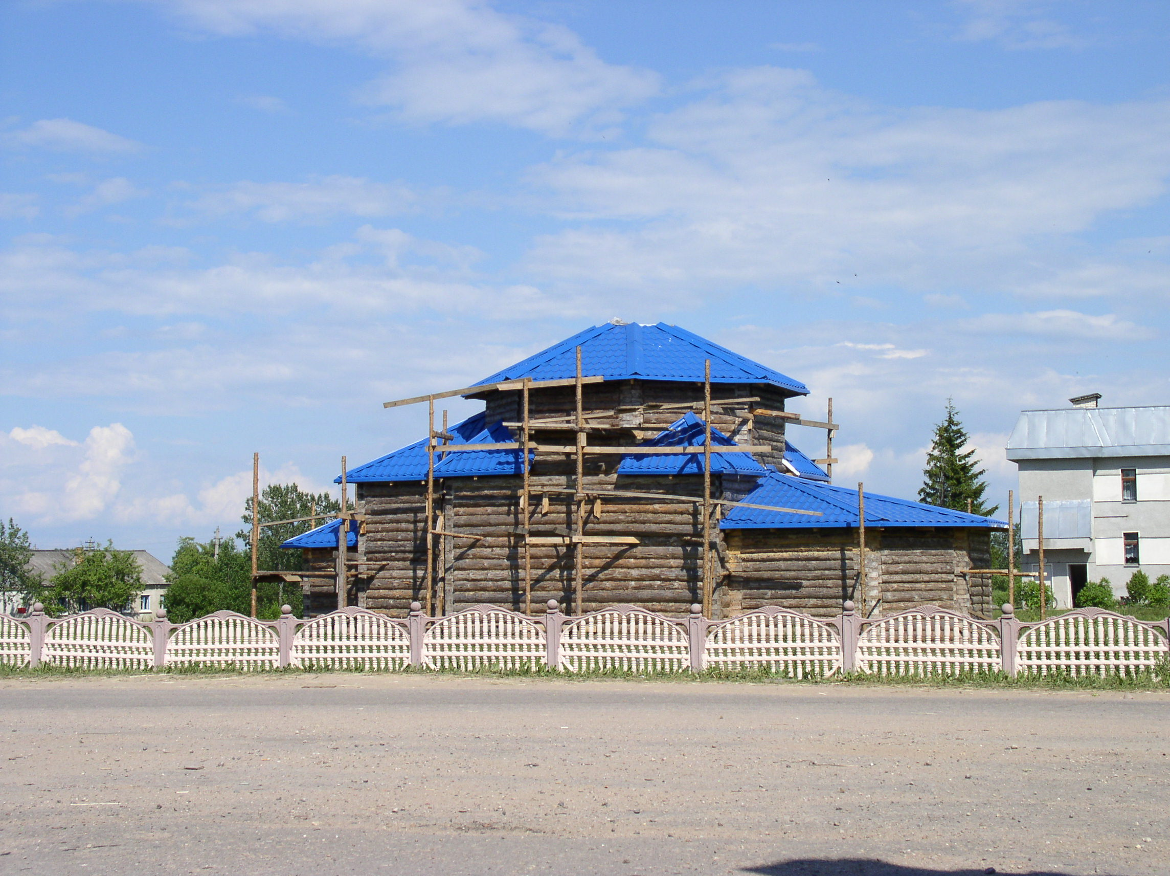 Church Construction. Khalamyer'ye, Belarus.